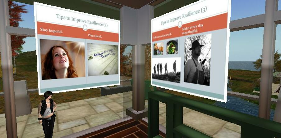 Screenshot of Health Info Island in Second Life.